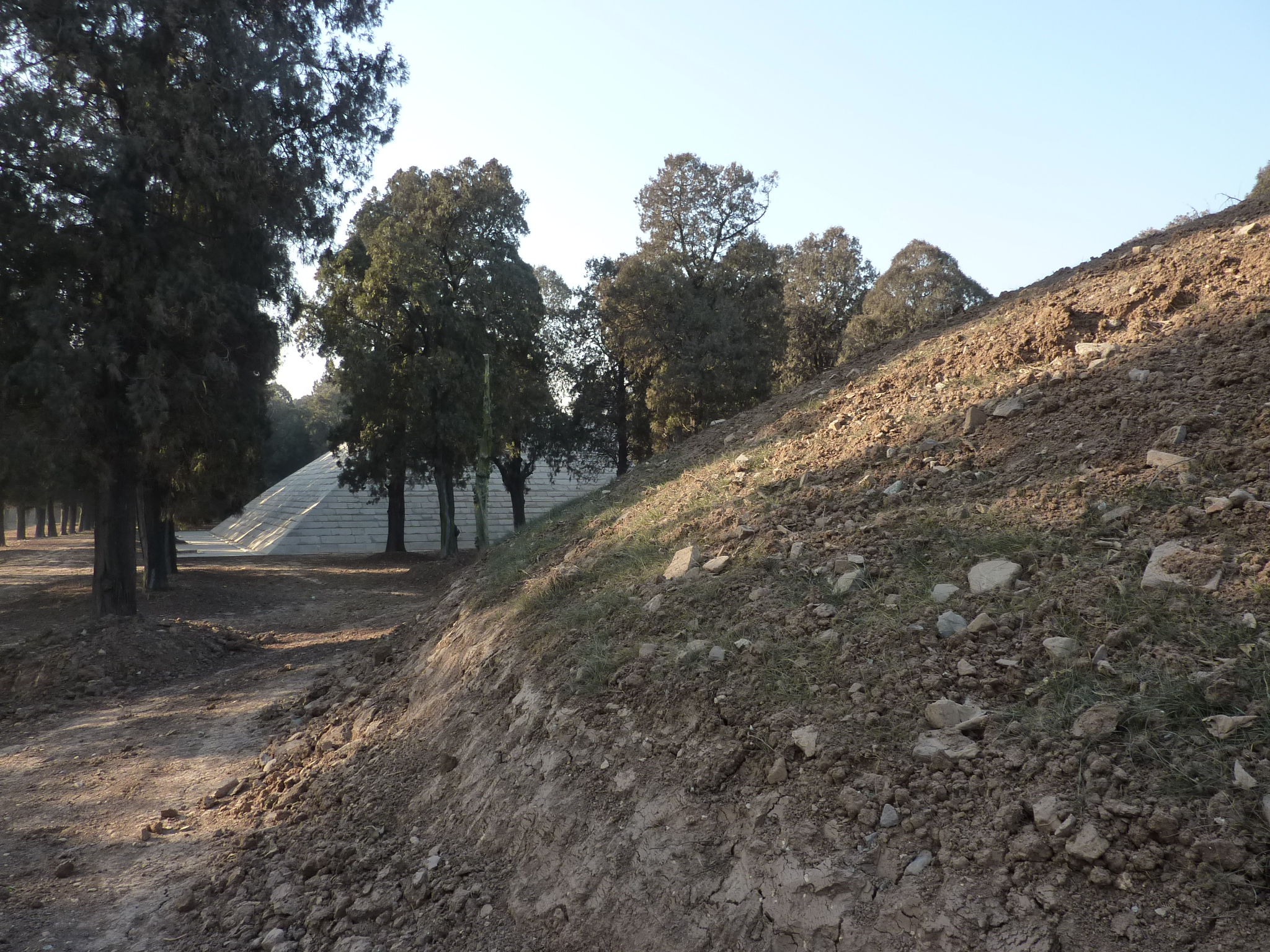 Shaohao Tomb site, east of Qufu. From the south to the north, includes a gate. a temple, a stone-faced pyramid, and an earth tumulus with the stele that says "Shaohao Ling" (Shaohao's Tomb) in front of it. This photo: the eastern side of the tumulus and the pyramid, seen from the NE.